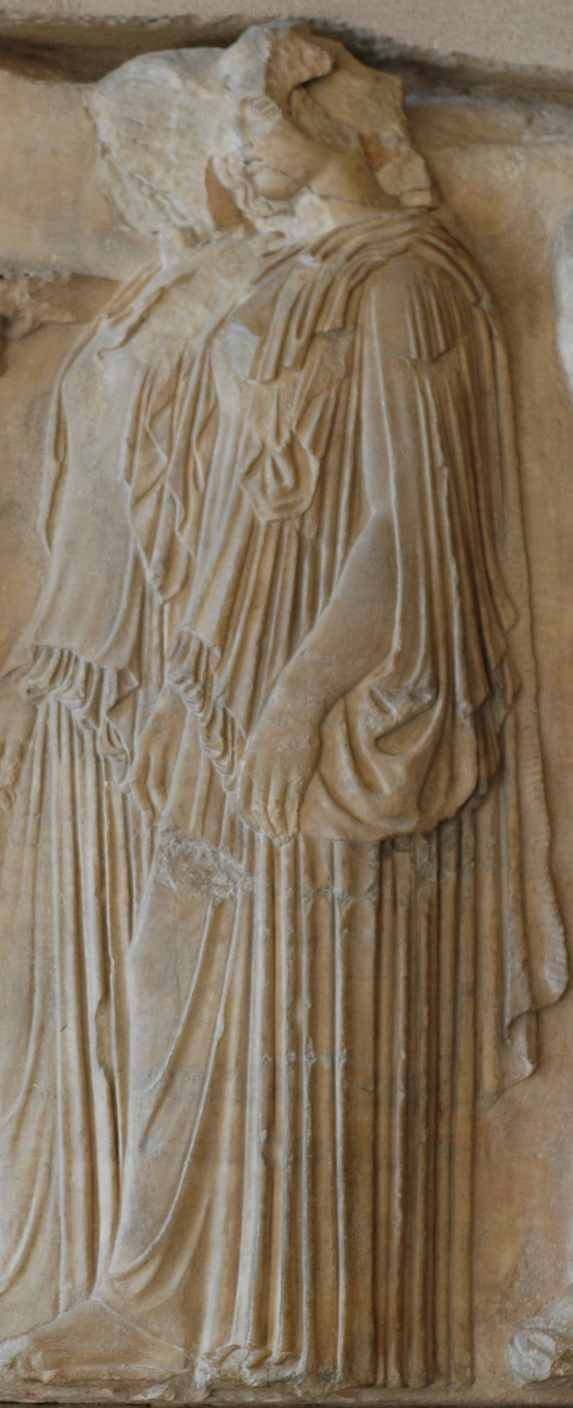 Athenian woman wearing the chiton, detail. Fragment from the Ergastinai (“weavers”) frieze, from the Parthenon in Athens. Traces of ancient polychromy, Pentelic marble, c. 445–435 B.C.